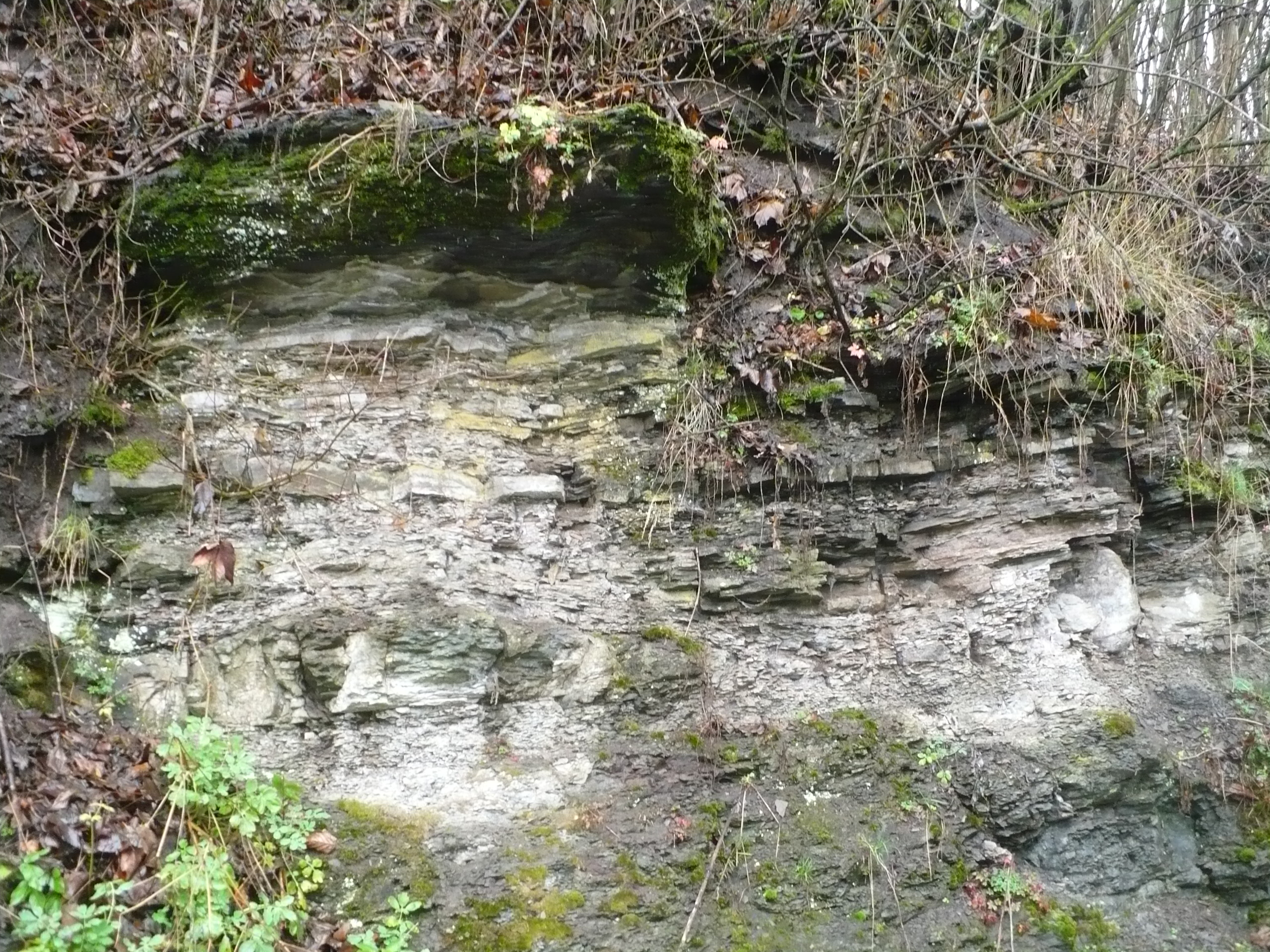 Skalní výchozy s patrnou břidlicí